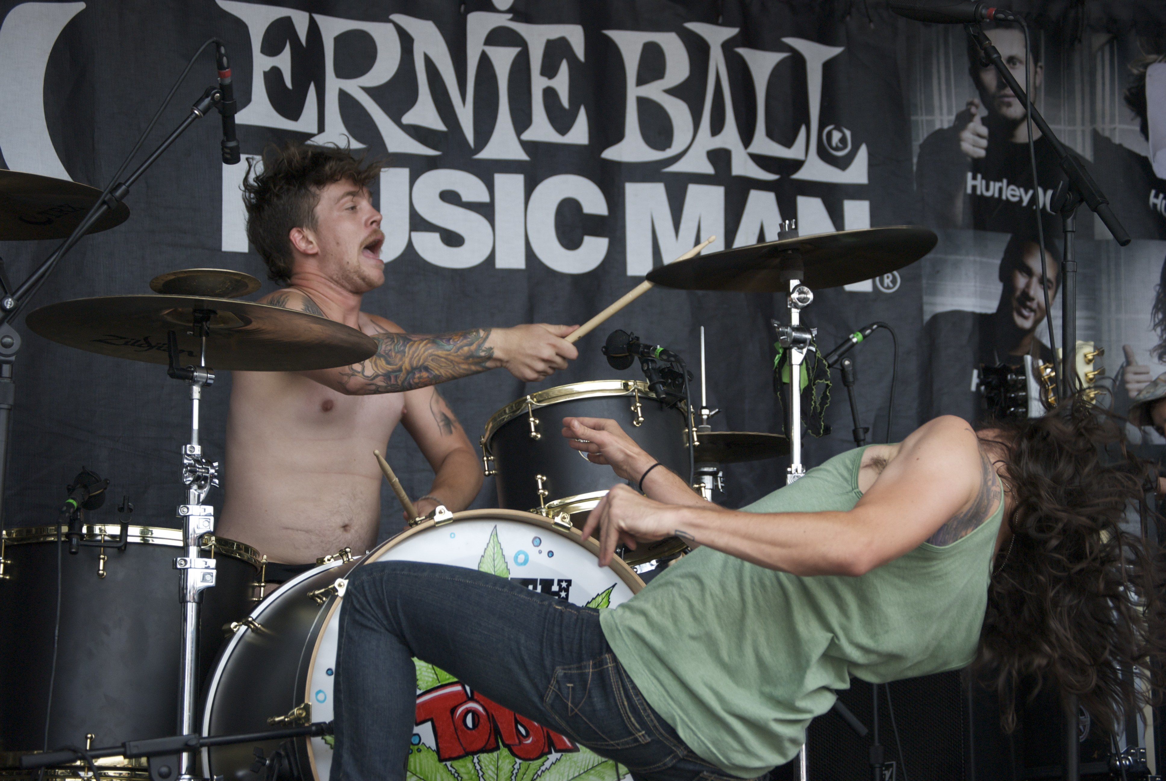 Wayne performing with Scary Kids Scaring Kids in 2009